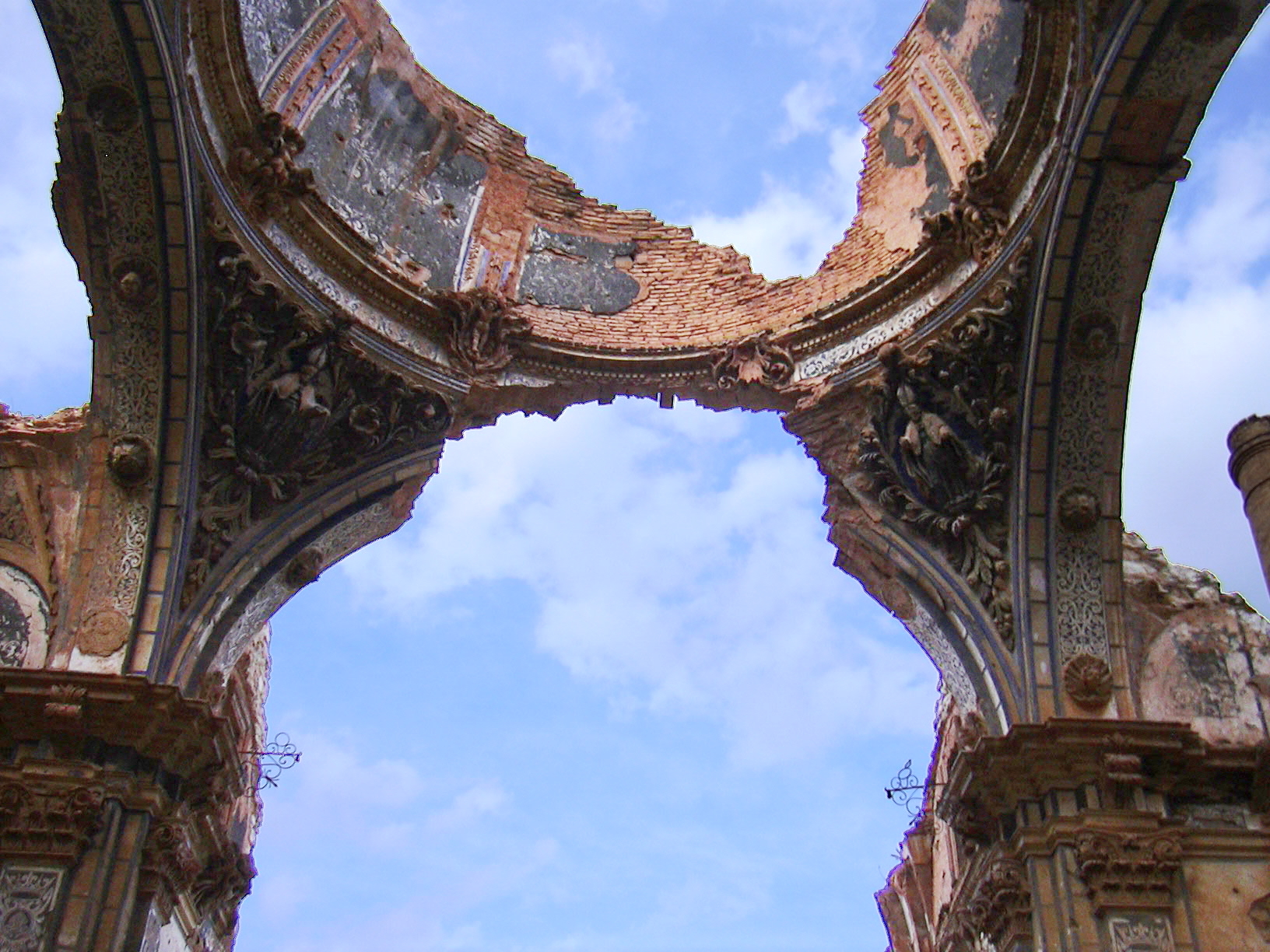 Belchite - Town in Aragon, Spain - Destroyed during the Spanish Civil War (1937), was not rebuild and stayed as monument